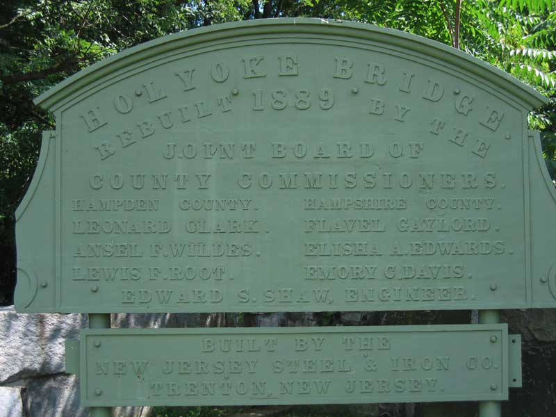 Sign circa 1889 for the bridge now known as the Vietnam Memorial bridge between South Hadley, Massachusetts and Holyoke, Massachusetts